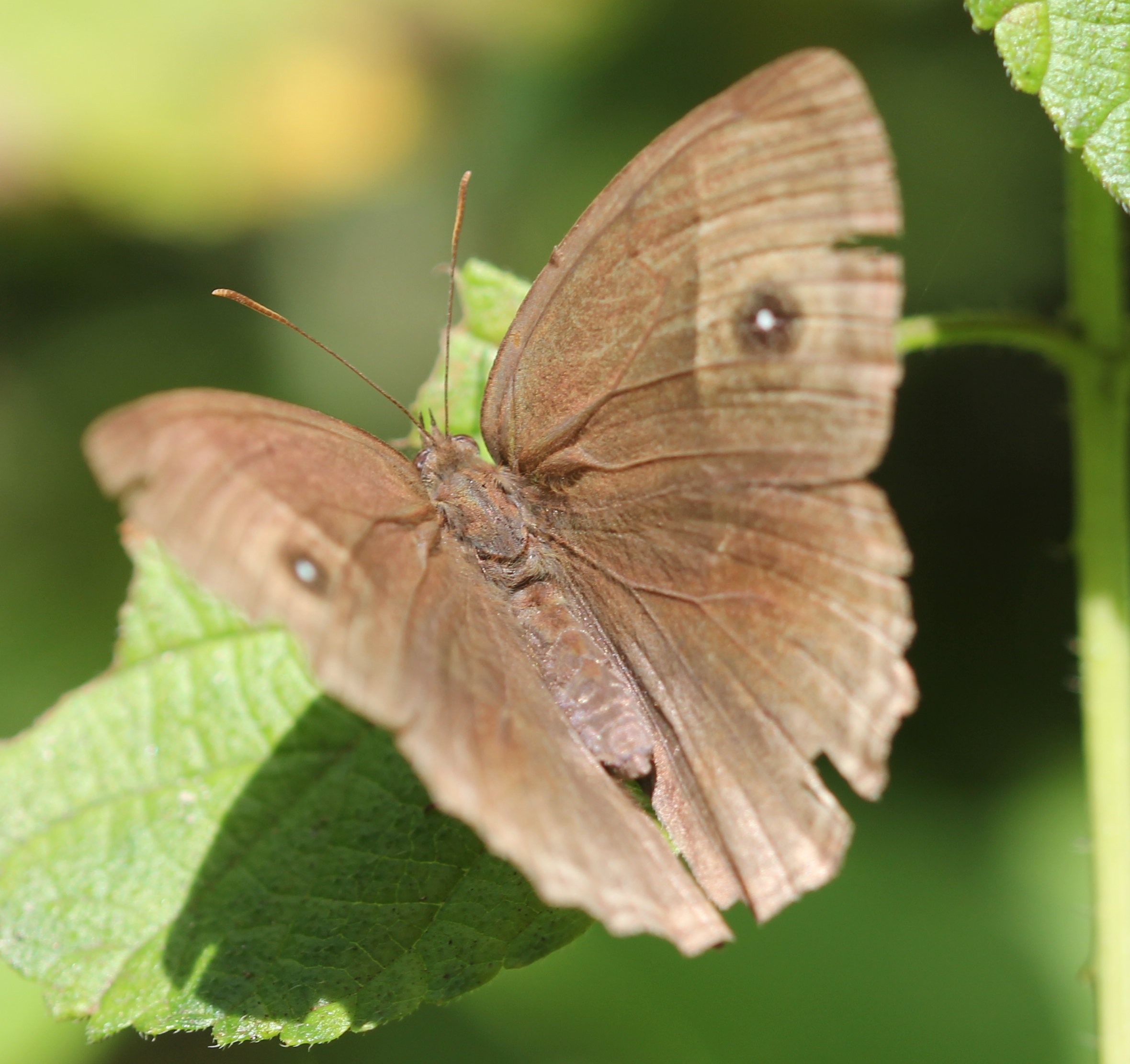 open view of Long brand bushbrown